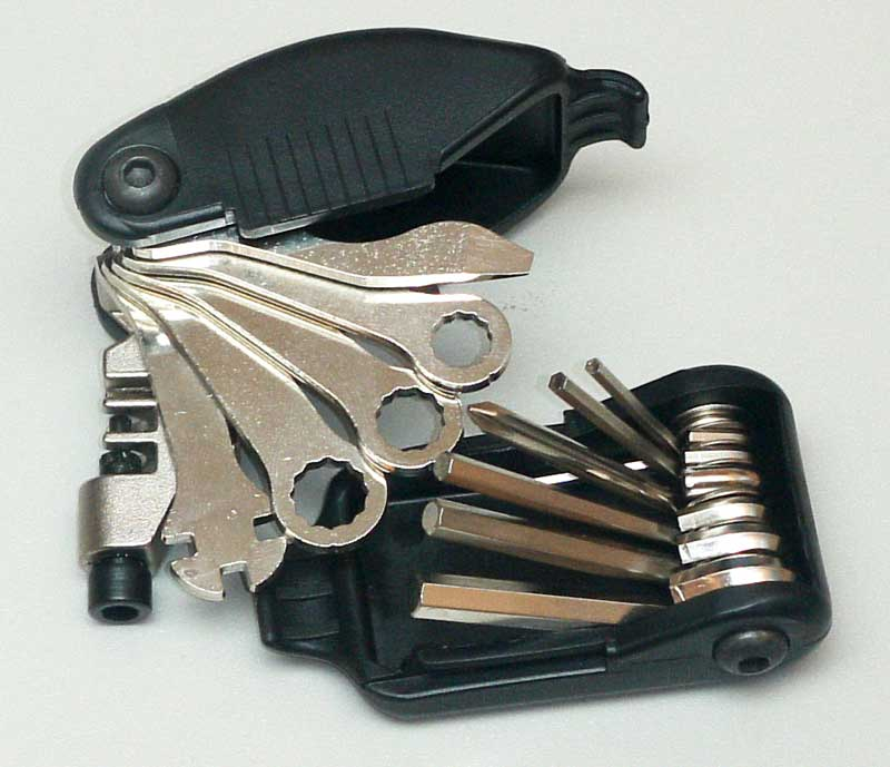 Multi-tool for a bicycle